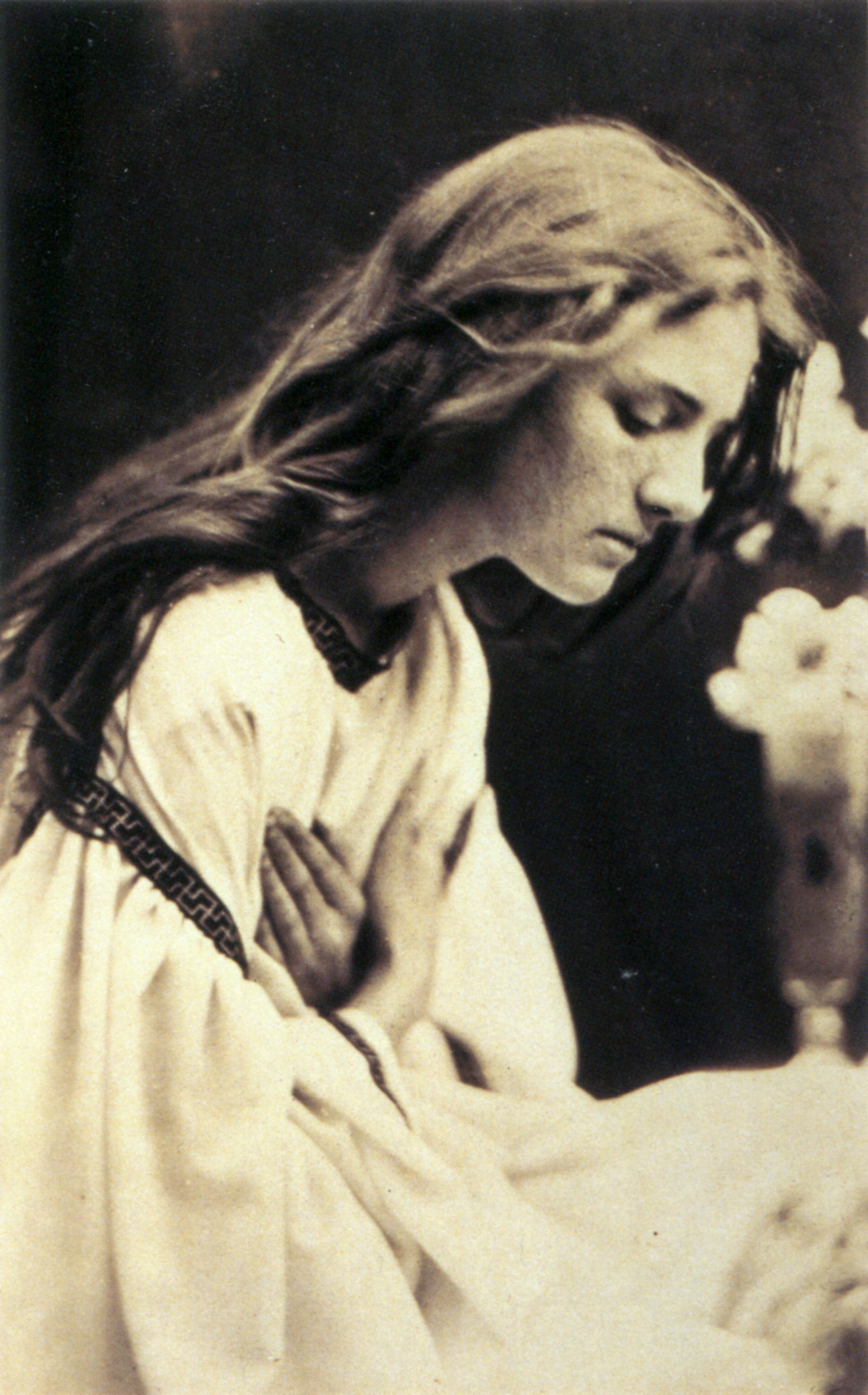 After the manner of Perugino. Model is Mary Ryan. Title likely references Pietro Perugino. Albumen print, 208 x 130mm (8 1/4 x 5 1/8").